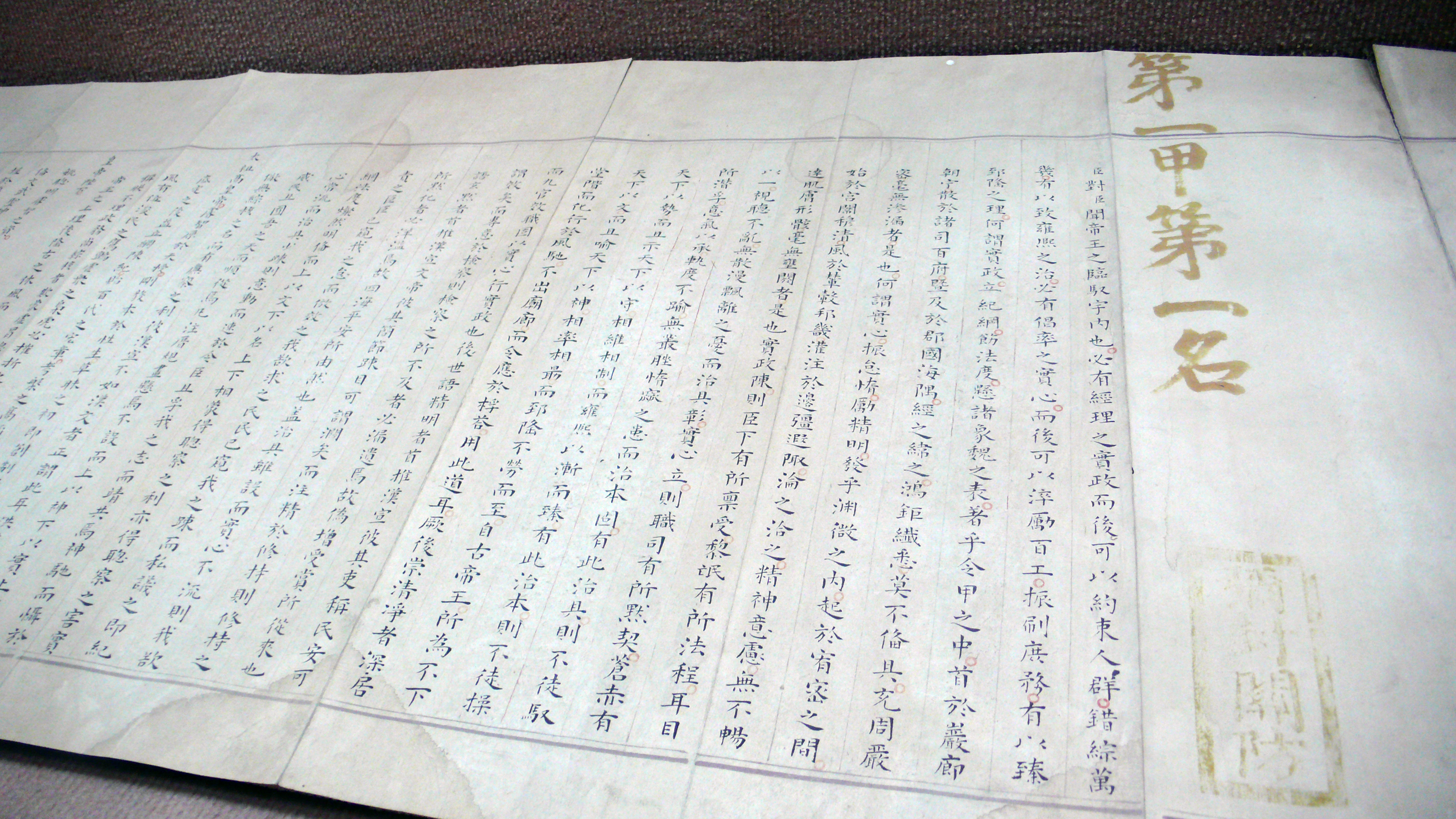 The inperial exam paper by Zhao Bingzhong, who finally became Zhuangyuan ( the title given to the scholar who achieved the highest score on highest level of the Chinese imperial examinations).